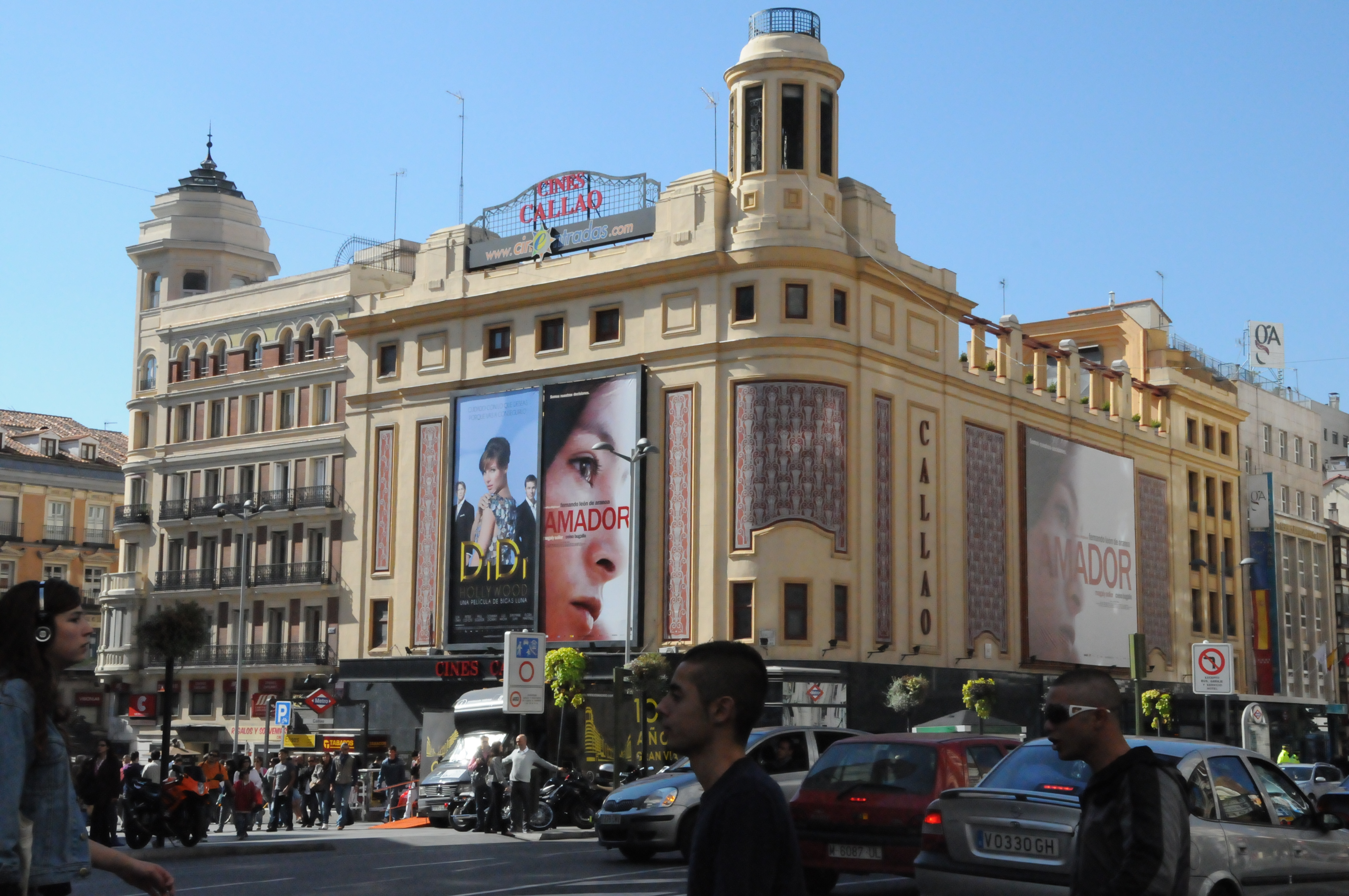 View of Cine Callao (a cinema) at 3 Plaza del Callao (square) in Centro district in Madrid (Spain). Building was projected in 1926 by architect Luis Gutiérrez Soto and built from 1926 to 1927.